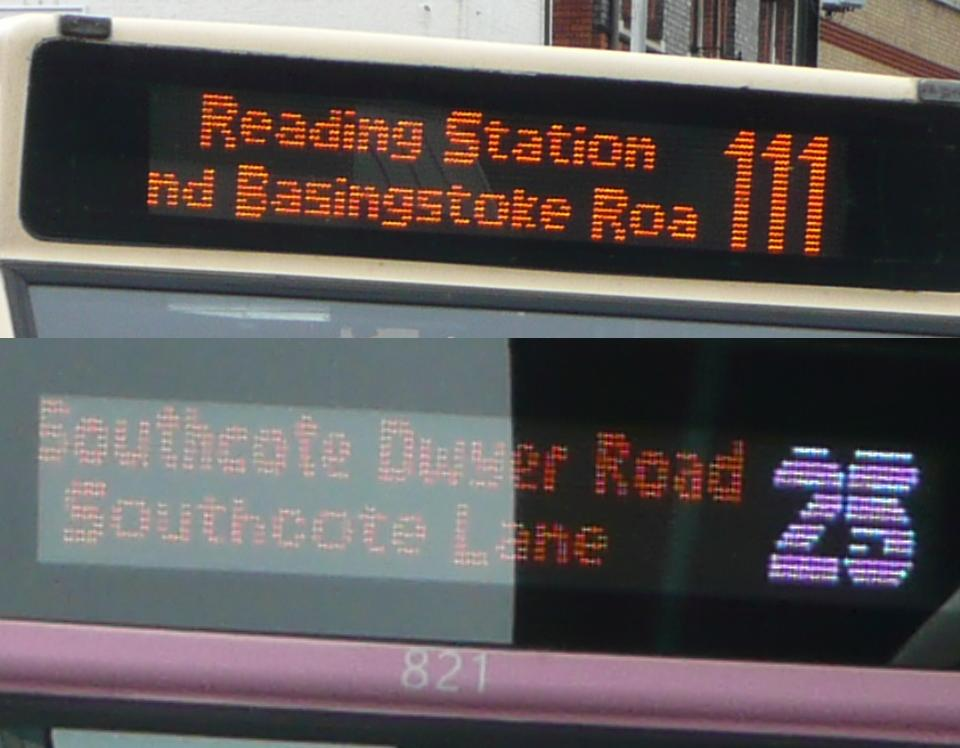 These are two LED destination displays on Reading Transport Ltd buses showing how LED technology can be used for transport purposes. The buses whose displays are shown are fleet numbers 112(top) and 821 (bottom)